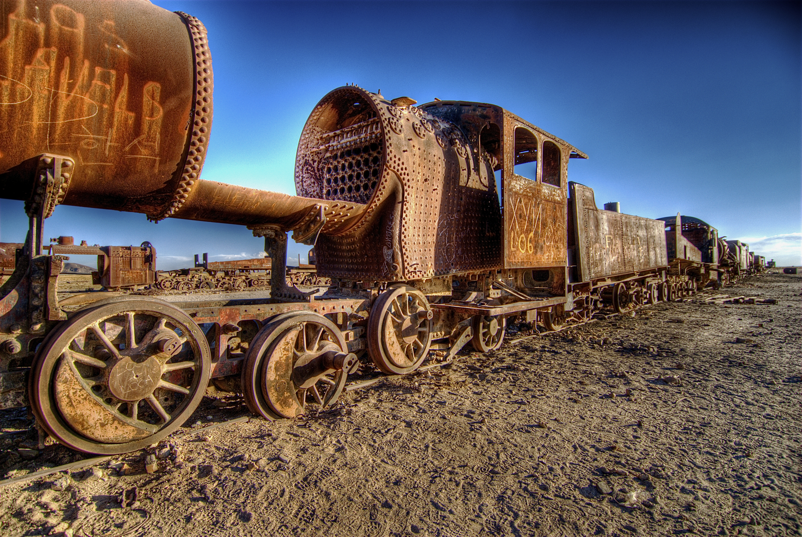 Old rusty train on desert near the town of Uyuni, Bolivia. October 2007.